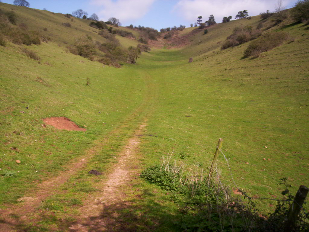 Batcombe Hollow near Draycott, Somerset.